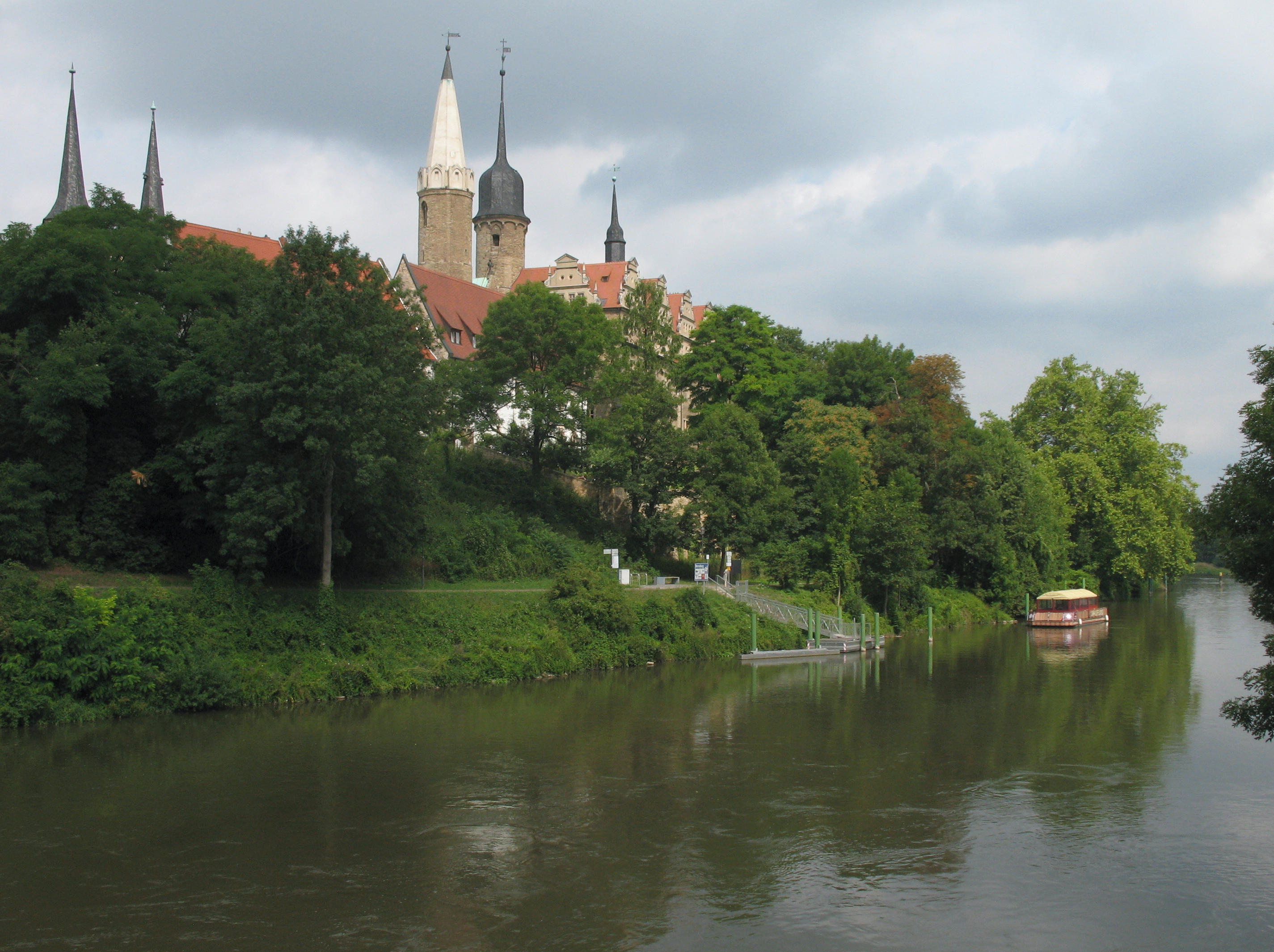 Saale, church, and castle in Merseburg in Saxony-Anhalt, Germany